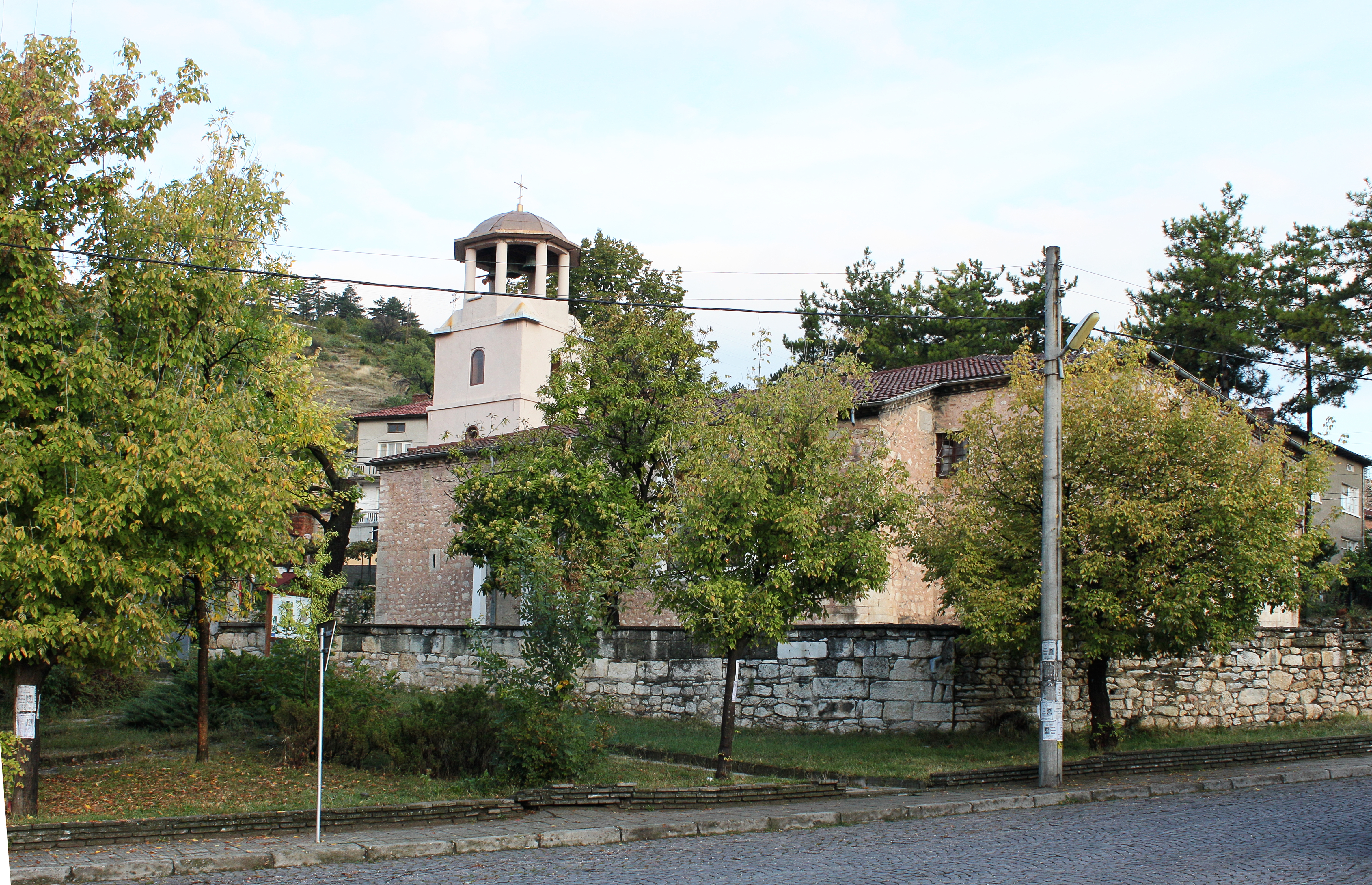 Ivailovgrad, Bulgaria